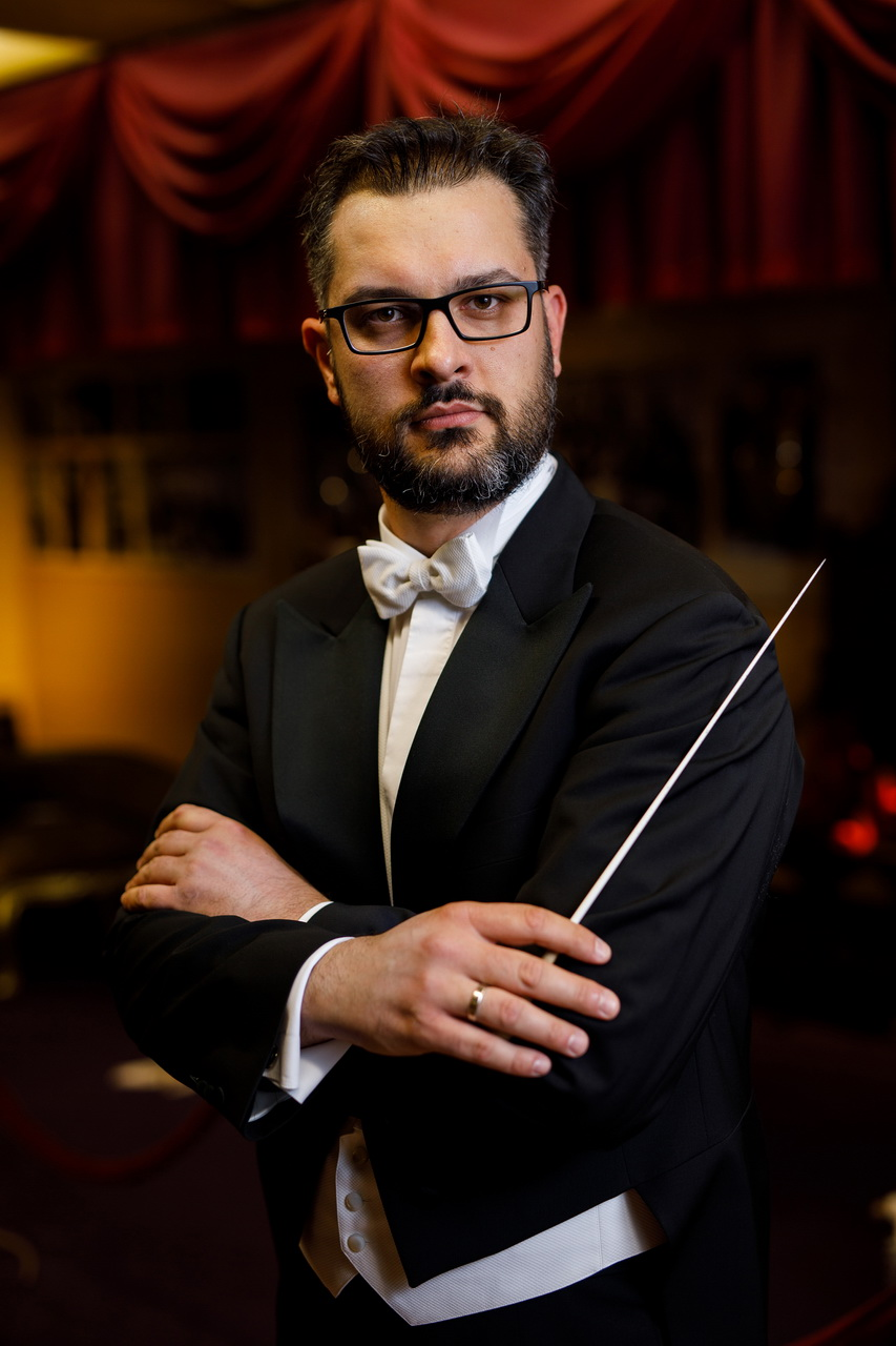 Aleksandar Kojić, conductor Srpski (latinica): Aleksandar Kojić, dirigent Српски (ћирилица): Александар Којић, диригент